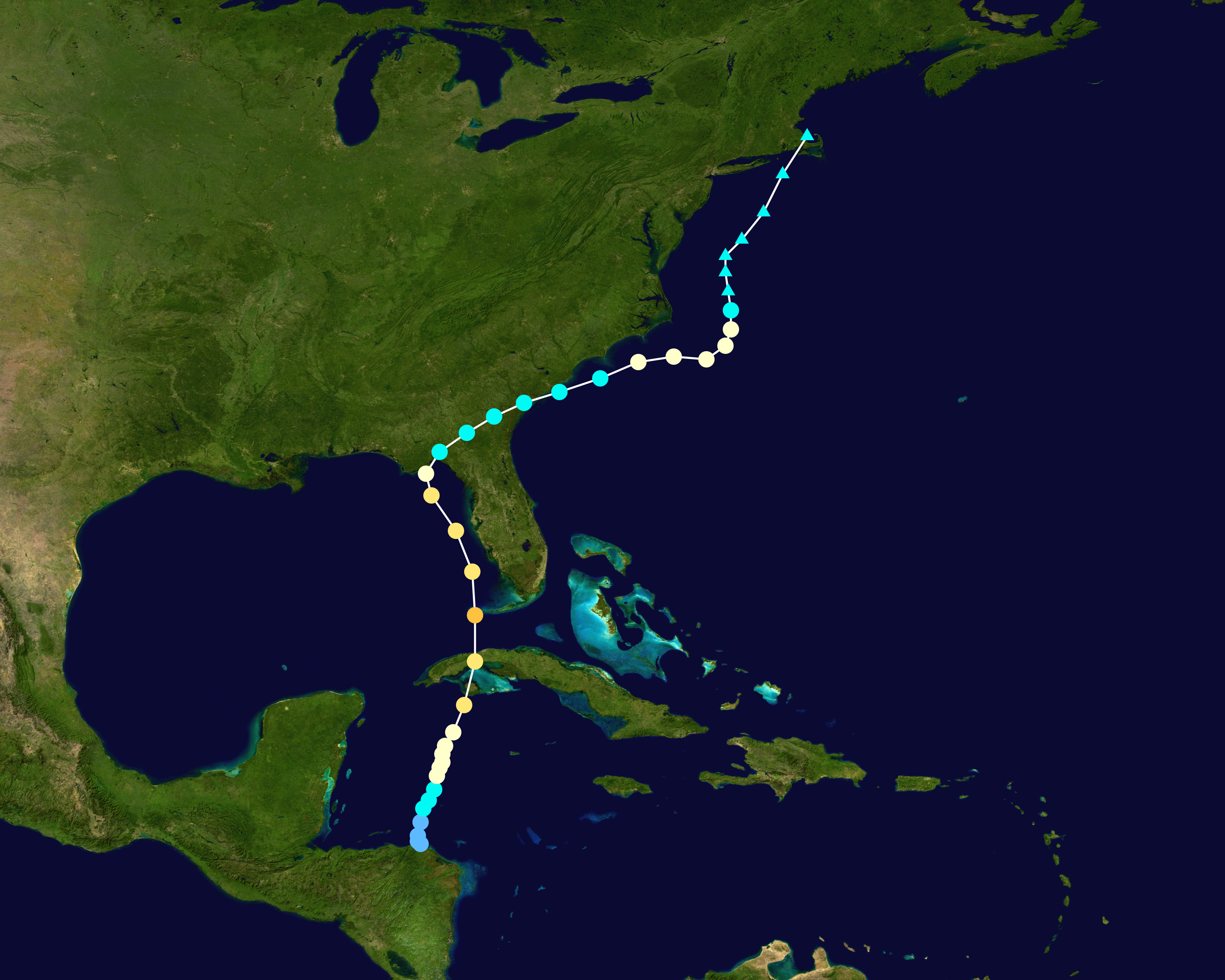 Hurricane Alma (1966) track. Uses the color scheme from the Saffir-Simpson Hurricane Scale.